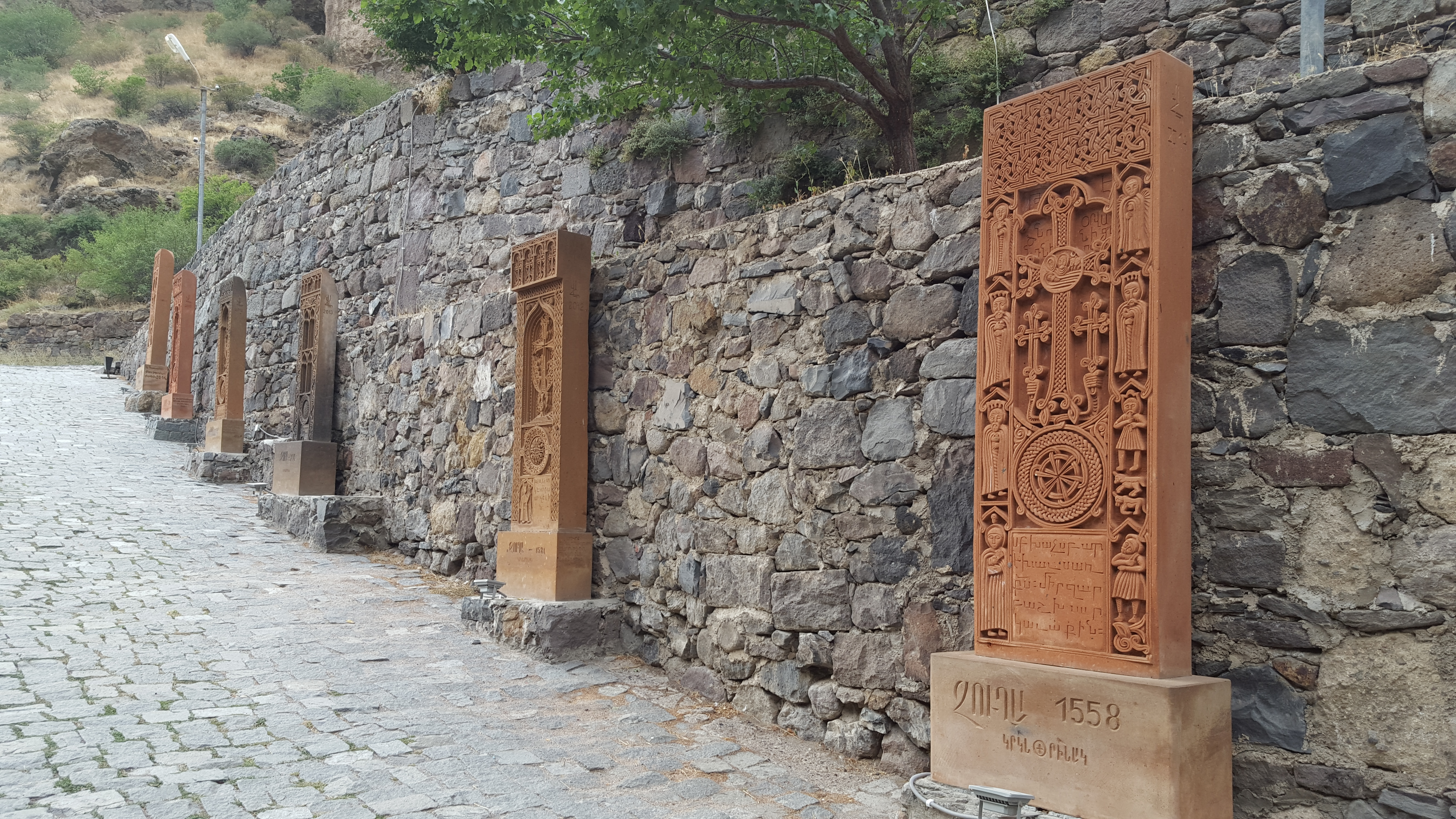 Khachkars at the Geghard monastery